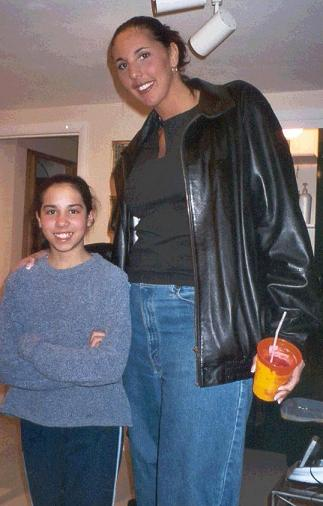 Kara Wolters